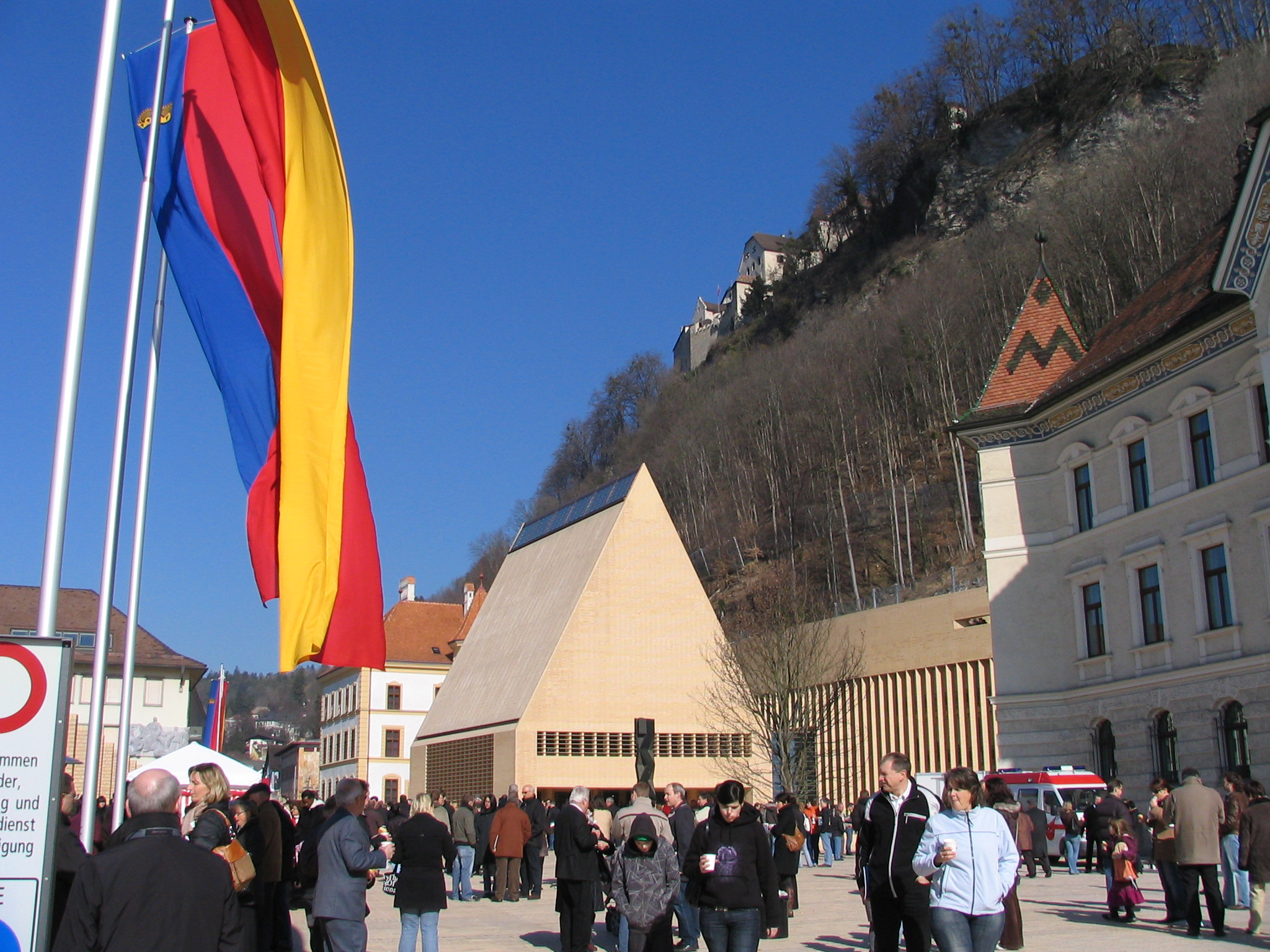 New Building of the Landtag (Parliament) in Vaduz, Liechtenstein. On the right the Government Building formery use also for the Landtag. Above all the castle of the Fürst (Prince)